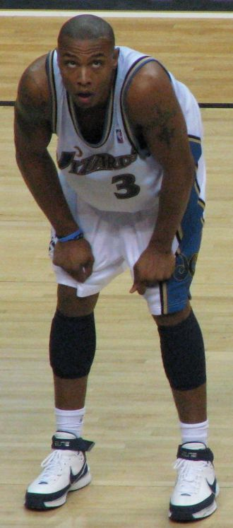 Caron Butler during a match Boston Celtics vs Washington Wizards on January 12, 2008